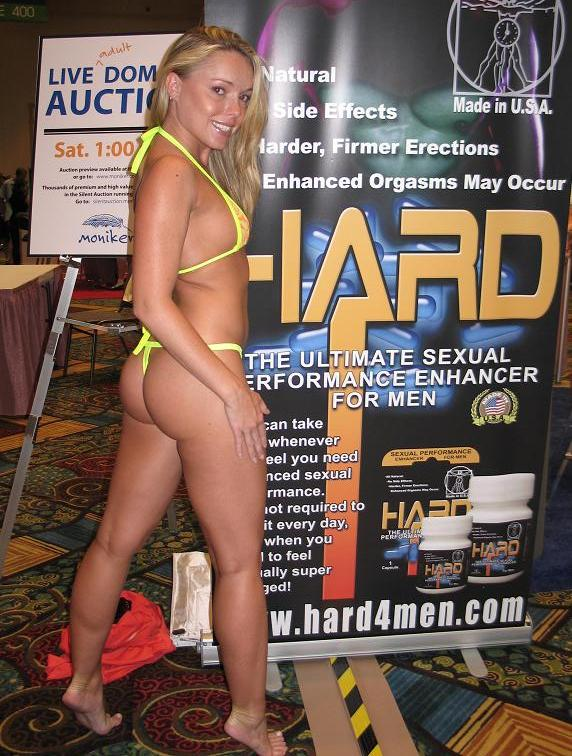 Trisha Uptown at Internext convention, August 3, 2007 wearing a mini bikini with a g-string.